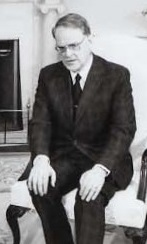 Romuald Spasowski cropped from another photo in Oval Office